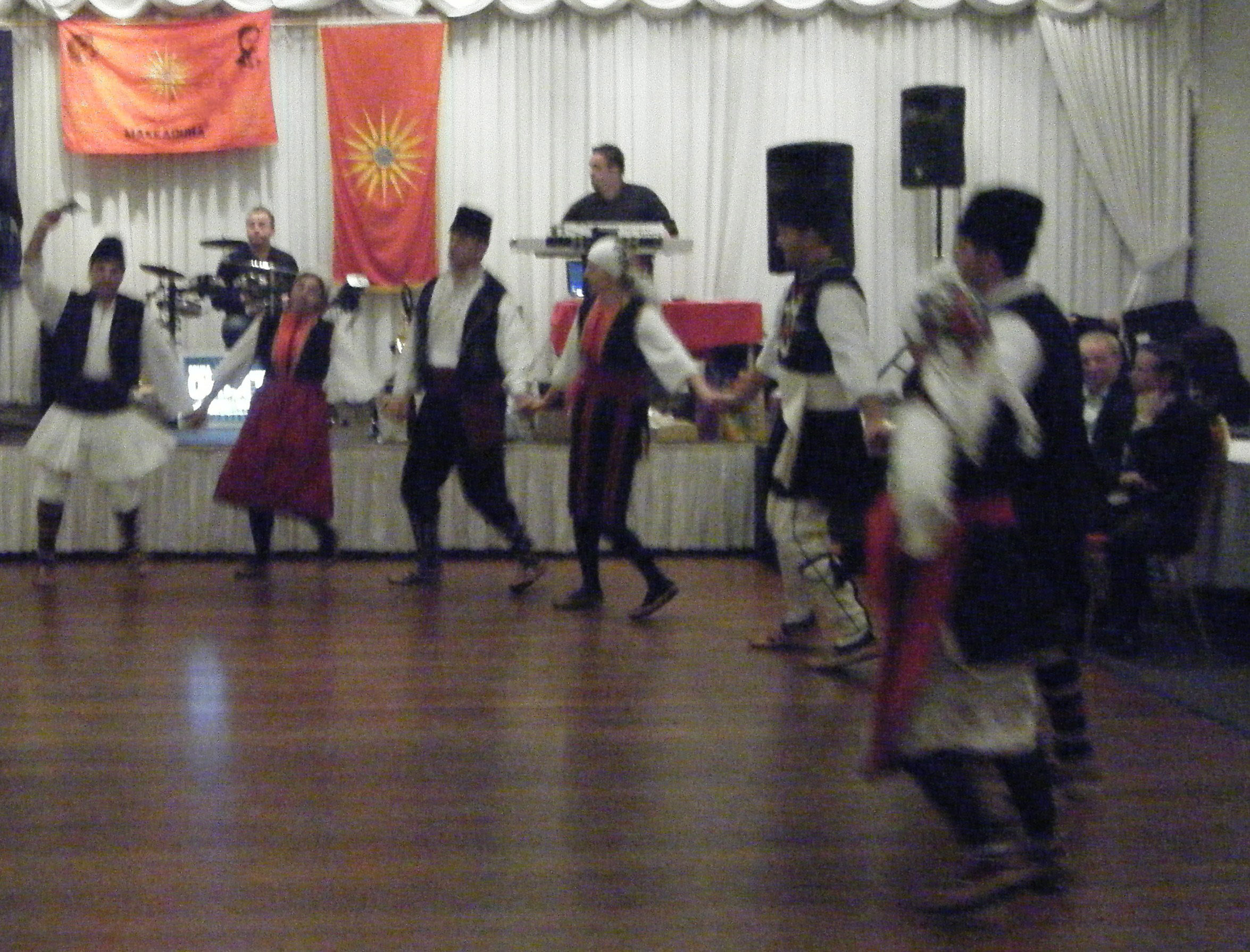 Ethnic Macedonian Cultural and Artistic Society "Belomorci" from Greece performing the song "Egejska Maka".